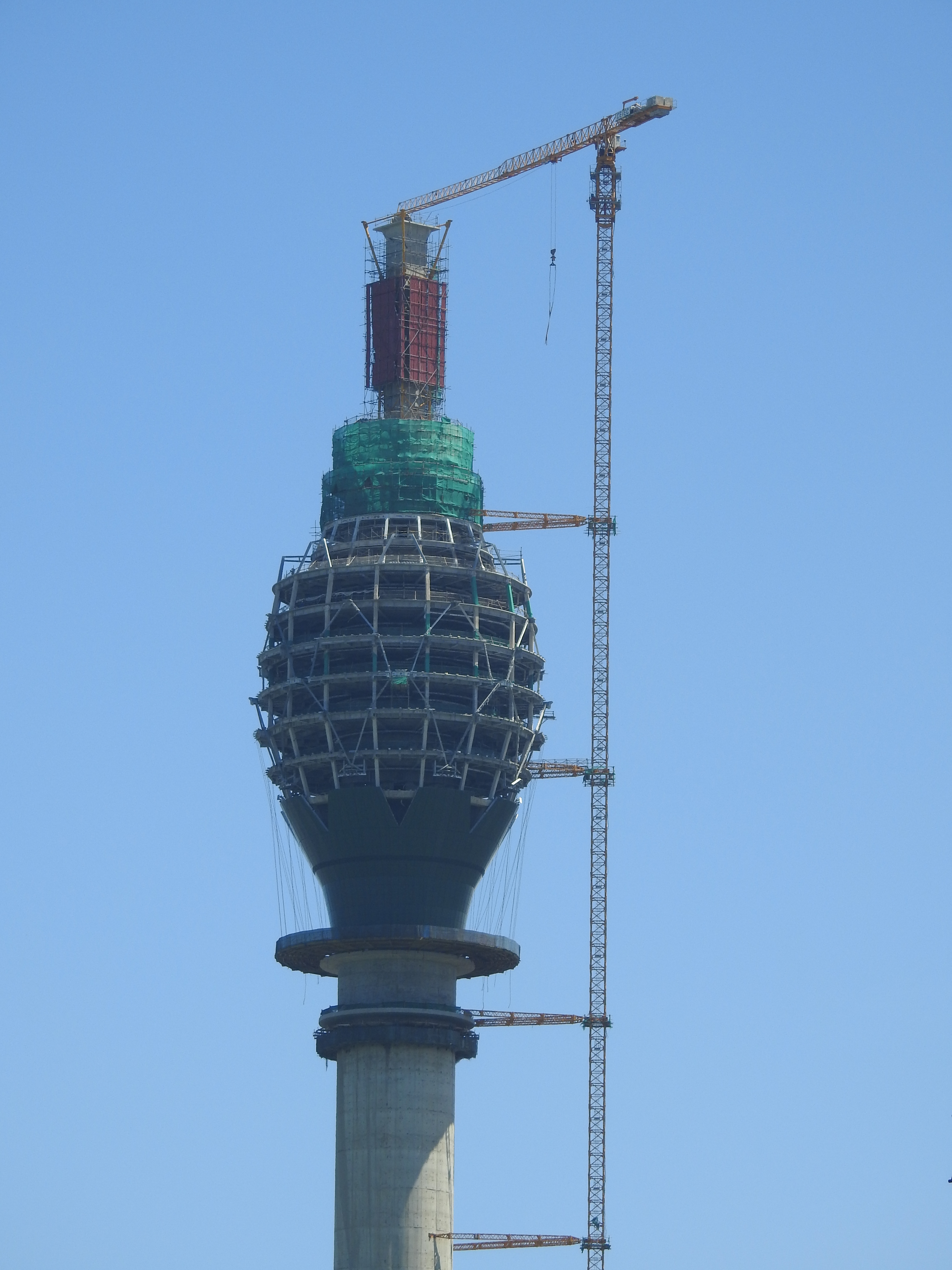 Photos of current/future skyscrapers (and its surroundings) in Colombo, taken by User:Rehman and User:Azeez as part of a photowalk project by Wikimedia Community User Group Sri Lanka. The photowalk covered most of the tallest structures in Colombo that are either completed or under construction. Further information on the subject(s) of the photograph can be found in the category/ies of this file.